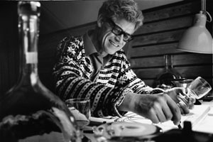 Per Lütken